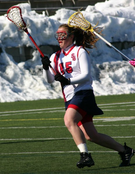 Stony Brook women's lacrosse player Danielle Werner carries the ball past a defender.